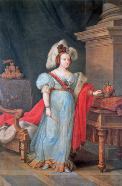 Portrait of Maria II of Portugal, 1834, by Joaquim Rafael. In the collection of the Lisbon Military Museum, Portugal.